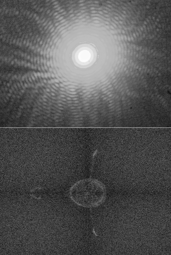 The upper half of this image shows a diffraction pattern of He-Ne laser beam on an elliptic aperture about 3 m far. The lower half is a detail of its 2D Fourier transform calculated in GIMP. Thanks to similarity between the forward and inverse Fourier transform, it has approximately reconstructed the shape of the aperture. There are also two "wings" of higher spatial frequency caused by the millimeter grid on the paper. Note that the lower half of the image represents the imaginary values. The approximately reconstructed aperture shape is blended with its horizontally mirrored copy.